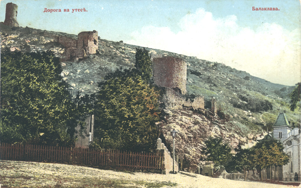 Road to rock in Balaklava. Pre-1917 postcard Flickr data on 2011-08-13 Tags: Old picture, postcard, Balaklava, Public Domain License: CC BY-SA 2.0 User: paukrus Ruslan